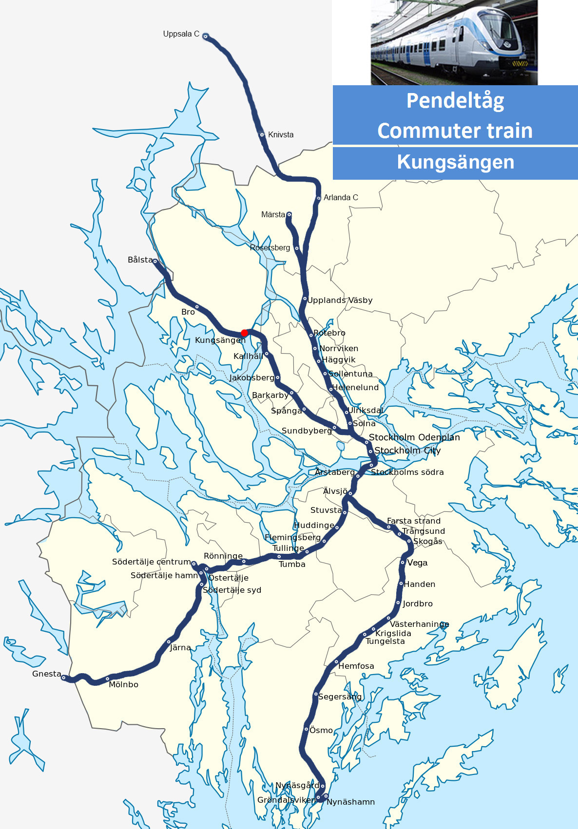 Kungsängen station map